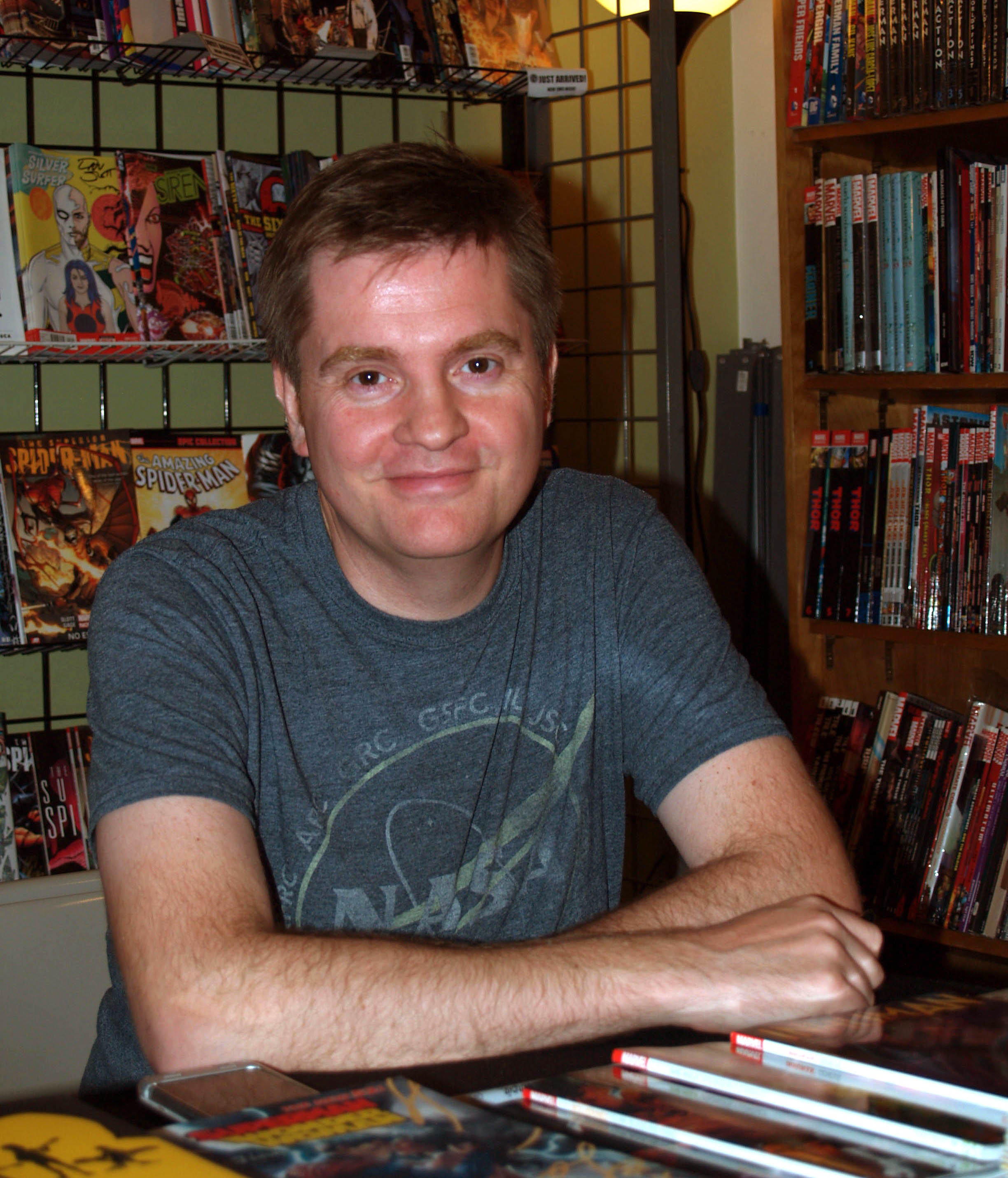 Comics writer and attorney Charles Soule at a June 24, 2015 book signing at Jim Hanley's Universe in Manhattan. This photo was created by Luigi Novi. It is not in the public domain, and use of this file outside of the licensing terms is a copyright violation.